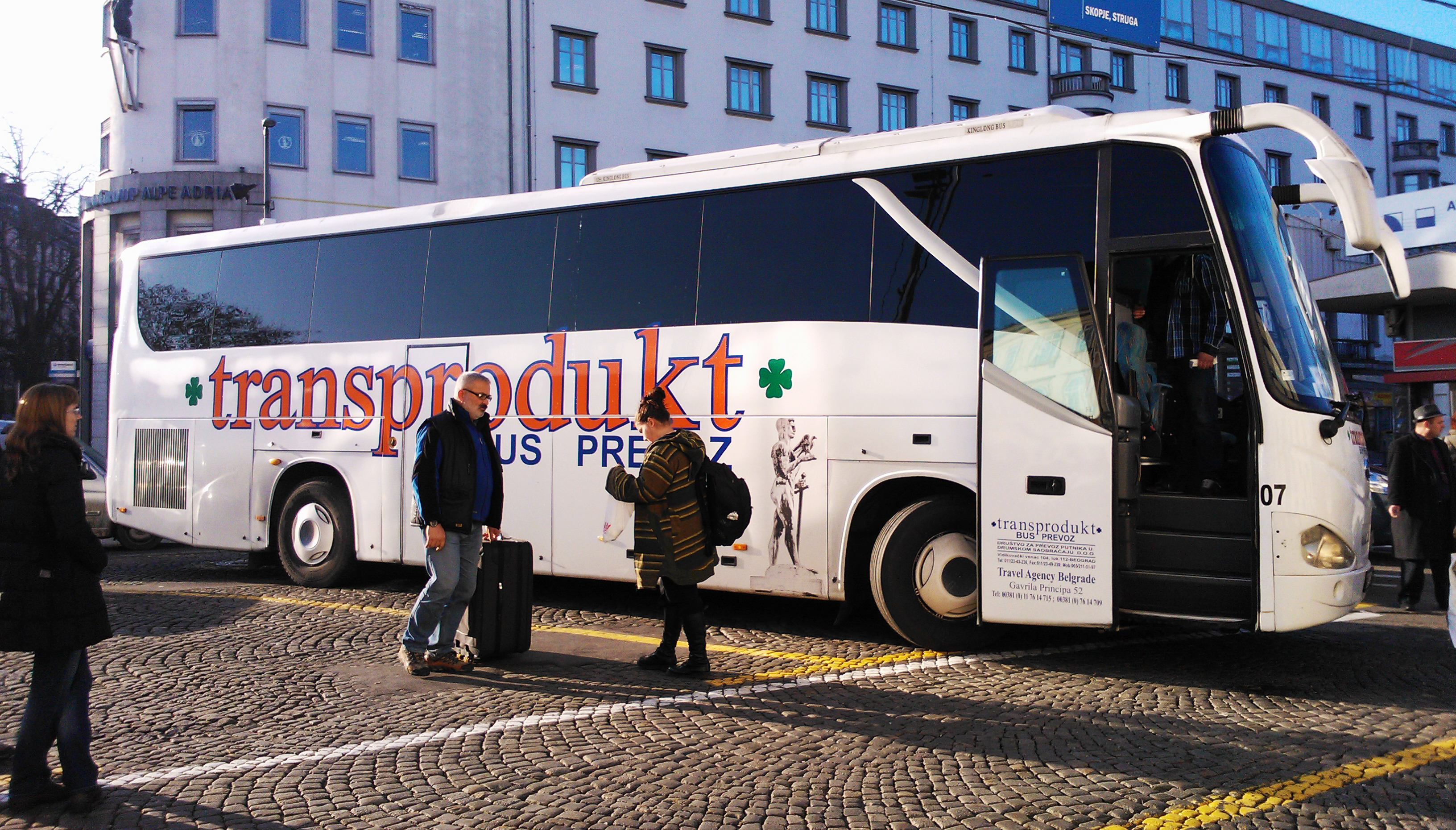 King Long long distance bus driving on Belgrade-Ljubljana relation. Ljubljana Central bus station. Српски (ћирилица): Кинески дугопругаш Кинг Лонг на релацији Београд-Љубљана. Колодвор Љубљана.